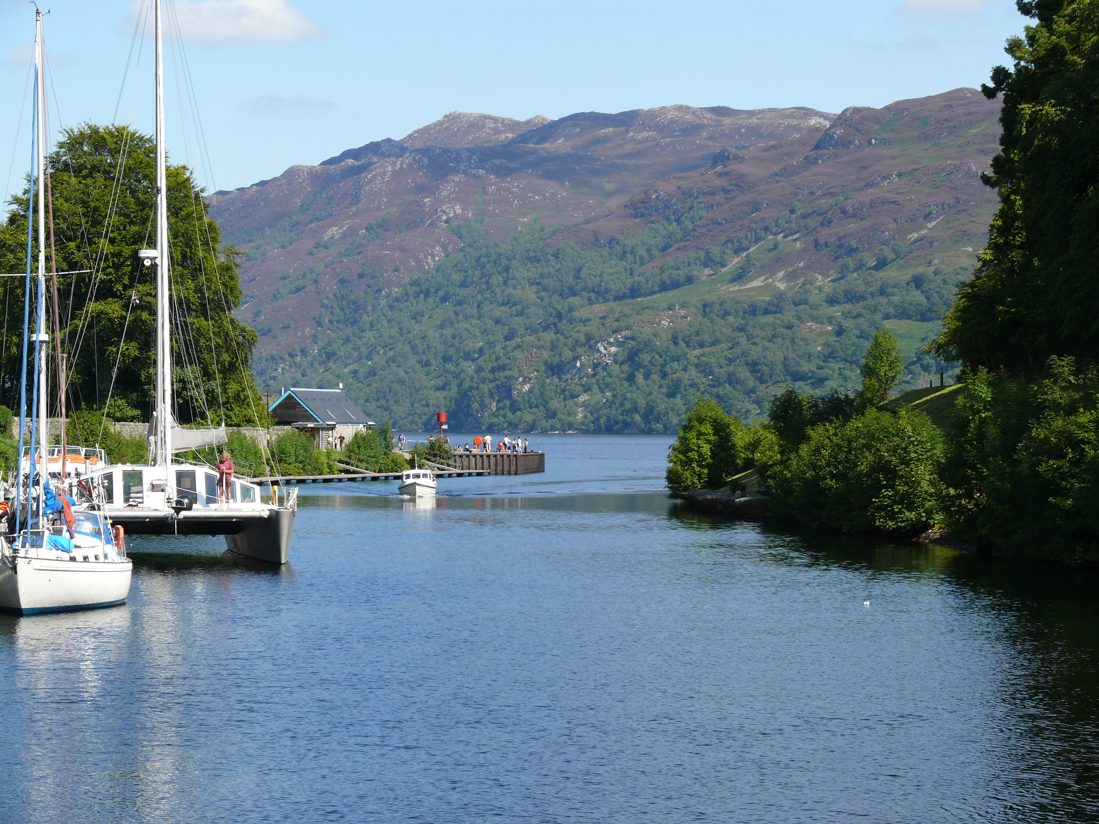 Caledonian Canal at Fort Augustus at the south side of Loch Ness.